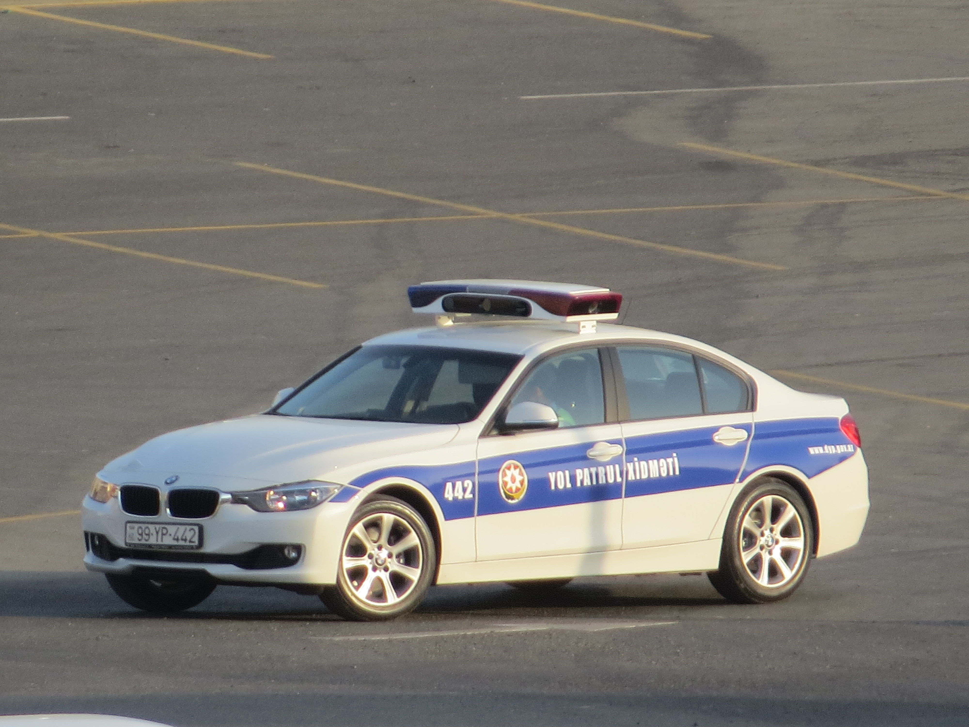 Azerbaijani traffic police car BMW 3 series.